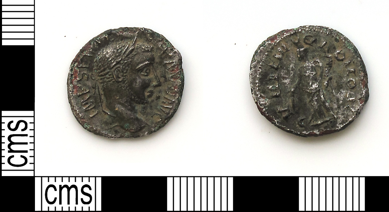 A debased silver denarius of Severus Alexander dating to the period AD 222 to 235 (Reece Period 11). Unclear reverse type depicting a figure advancing left and possibly holding a sceptre right.